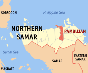 Map of Northern Samar showing the location of Pambujan